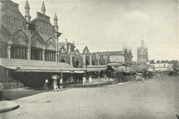 The Shopping Centre